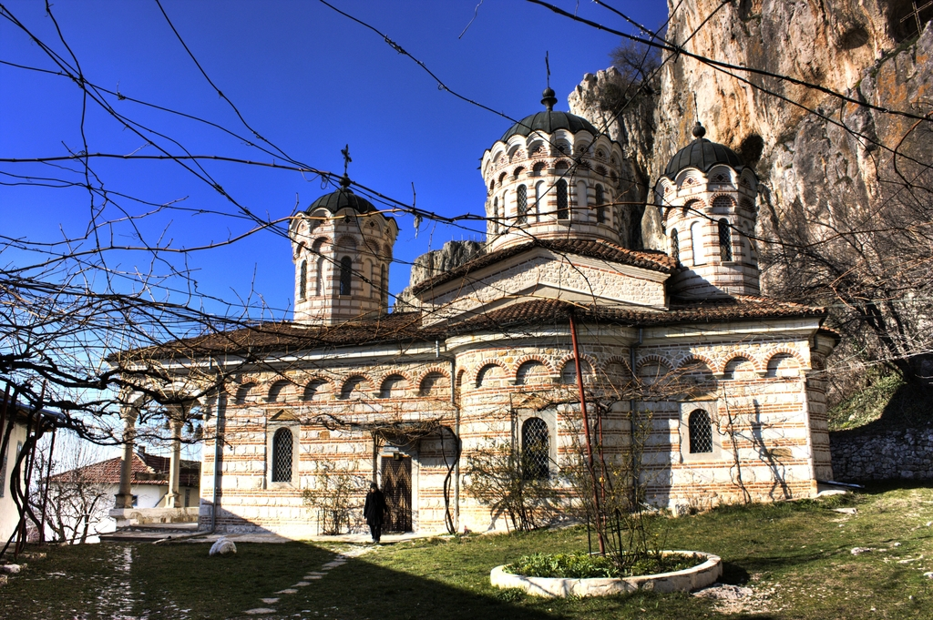 The Patriarch Monastery near Veliko Tarnovo, Bulgaria.